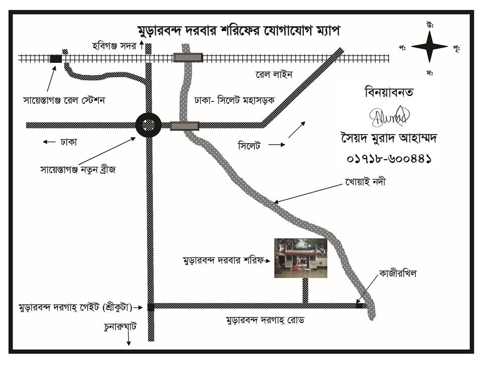 Road Map of Murarband Darbar Sharif